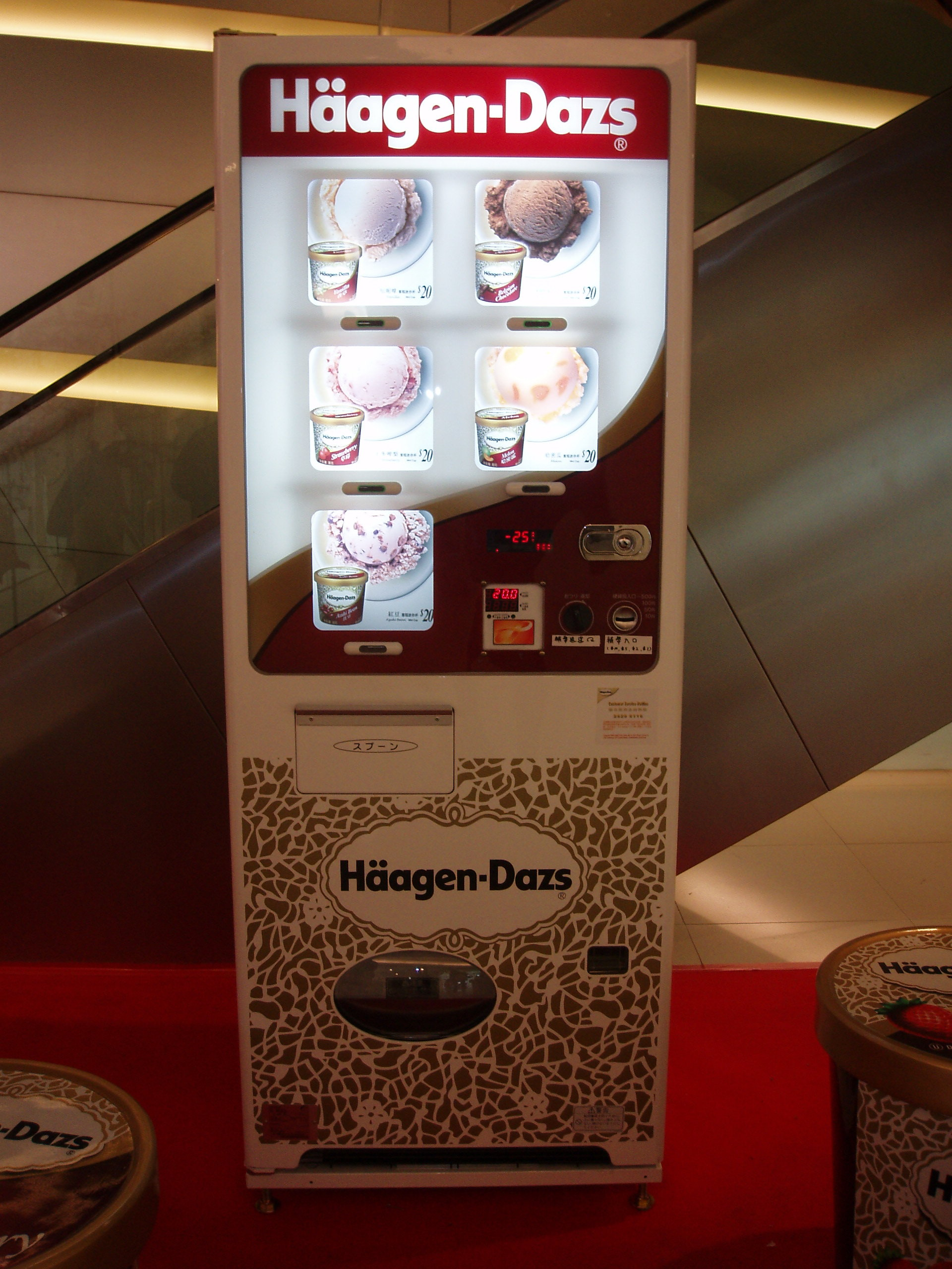 Häagen-Dazs vending machine at apm mall, Hong Kong (2006)